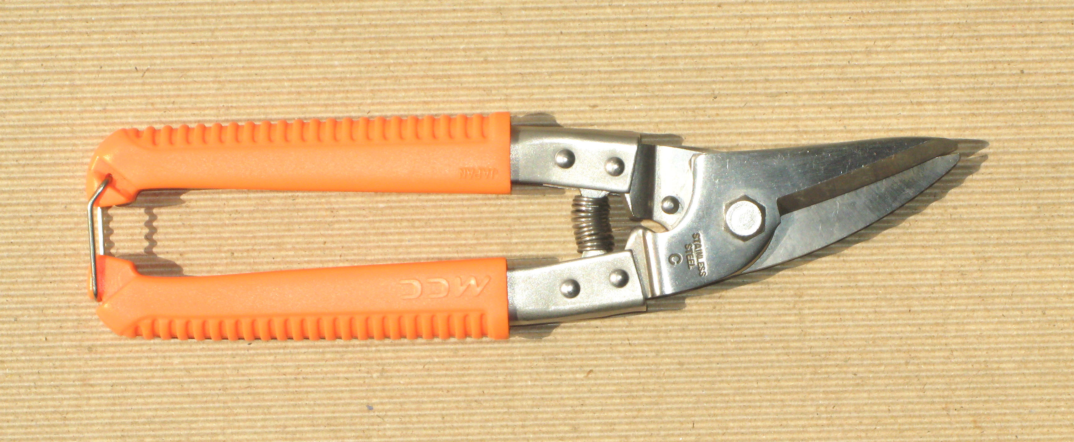 MCC brand made in japan.